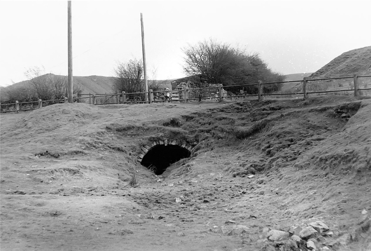 The northern portal of this historic tunnel, that used to run from near Blaenafon Iron works to link with the tramroad to the Brecon and Newport Canal at Llanfoist